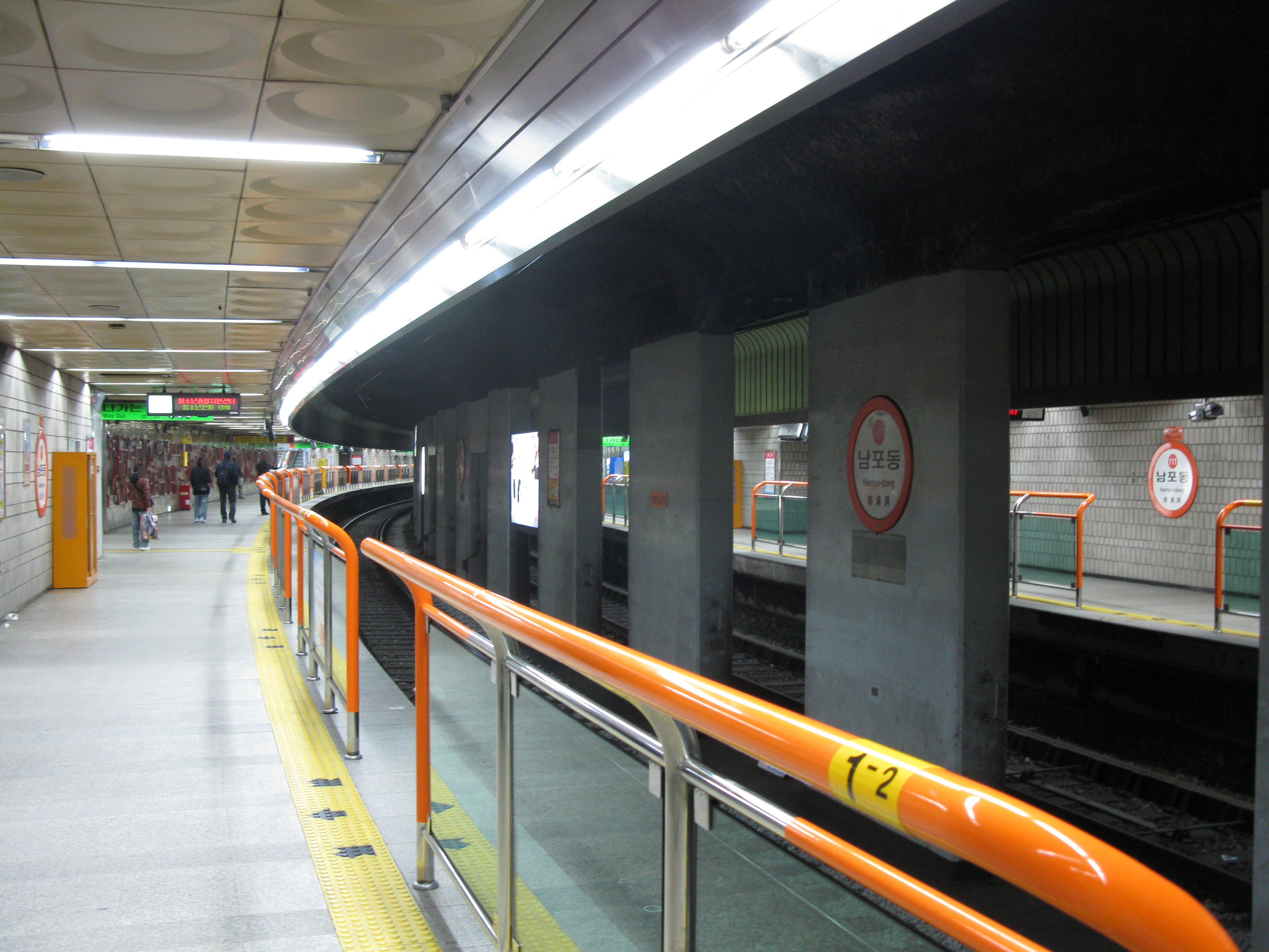 Nampo-dong Station platform (Busan Subway Line 1)